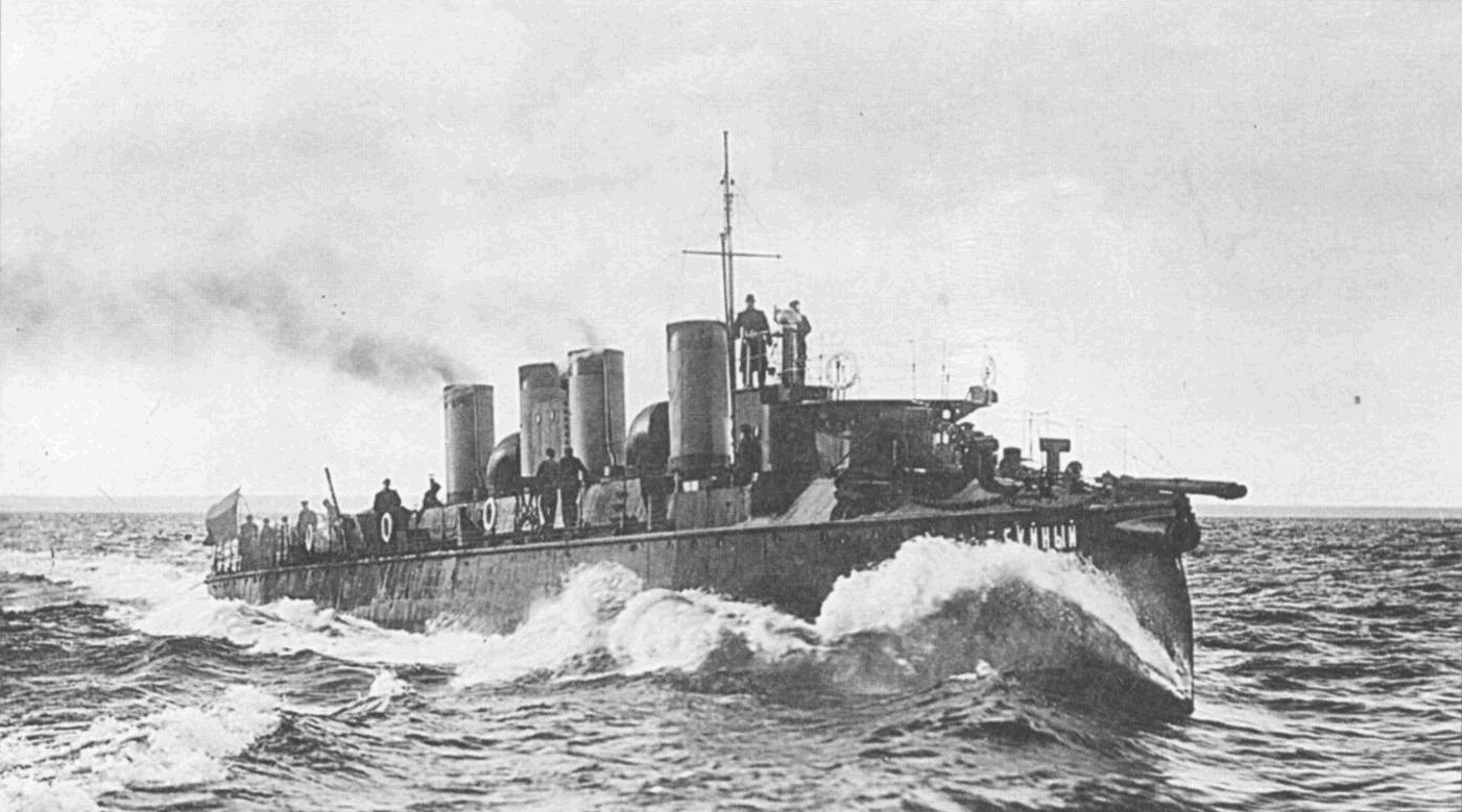 Imperial Russian destroyer Buinyi.